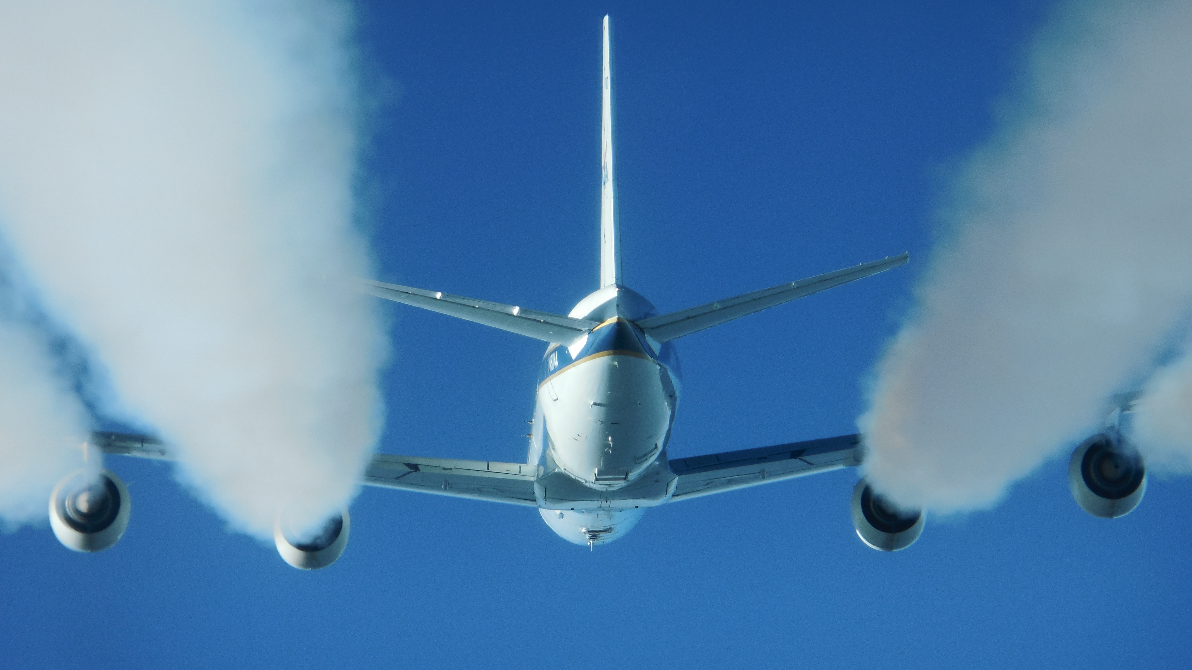 Orginal NASA Text: ACCESS Biofuels Flight Tests Puffy white exhaust contrails stream from the engines of NASA's DC-8 flying laboratory in this photo taken from an HU-25 Falcon flying in trail about 300 feet behind the DC-8. Instruments on the Falcon were measuring the chemical contents of the exhaust contrails at varying distances from the DC-8, which was using both standard JP8 jet fuel and a mix of JP-8 and a plant-derived biofuel.